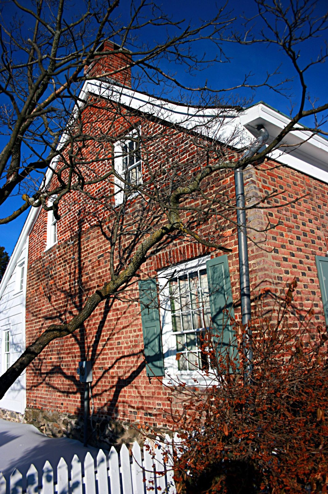 Photograph of the Glebe House in Poughkeepsie, New York, USA